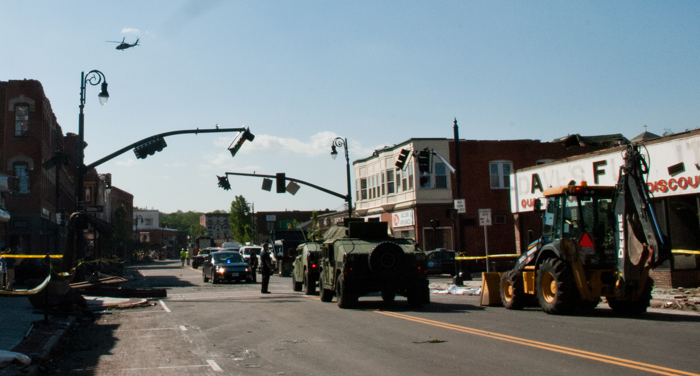 Original description from Flickr: "Soldiers of the 747th MP Battalion of the Massachusetts national Guard, work with Springfield and State Police to secure Main Street of Springfield Massachusetts. A Mass. National Guard helicopter also flies overhead surveying damage from the tornado on June 2nd 2011, a day after it hit Springfield. (Air Force Photo by Senior Airman Eric Kolesnikovas, Mass. National Guard Public Affairs)" This image was originally posted to Flickr by The National Guard at It was reviewed on 10 June 2011 by FlickreviewR and was confirmed to be licensed under the terms of the cc-by-2.0.